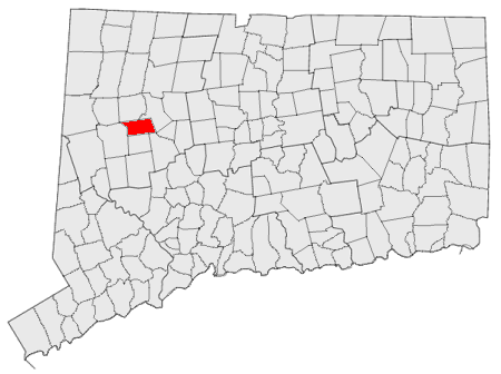 Locator map for Morris, Connecticut